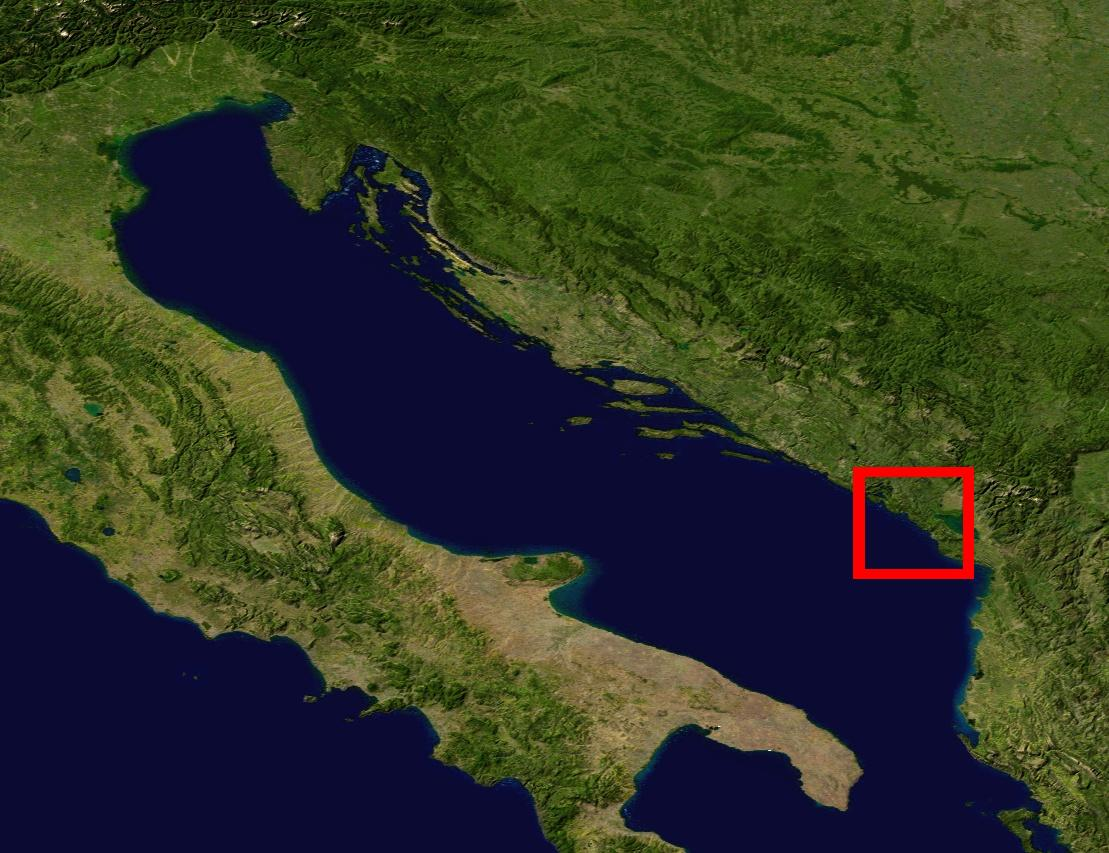 Coasts of Montenegro